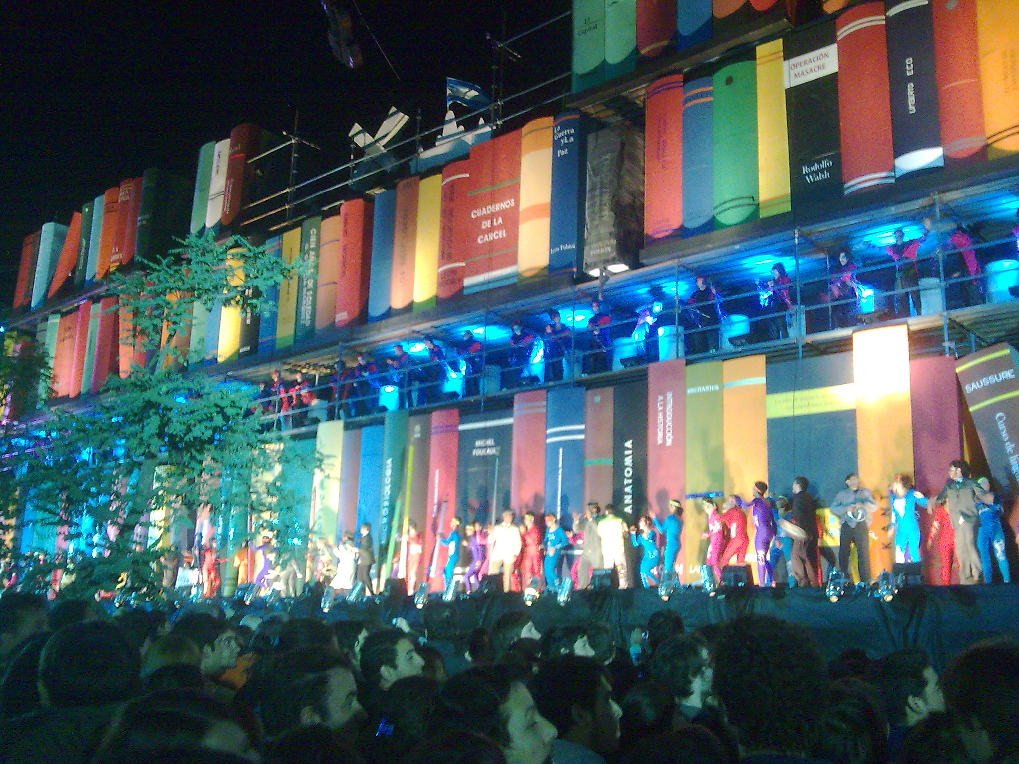 Artists greet the audience after the show. Beginning of the celebrations for the 400-year history of the National University of Córdoba. Cordoba City, Argentina.